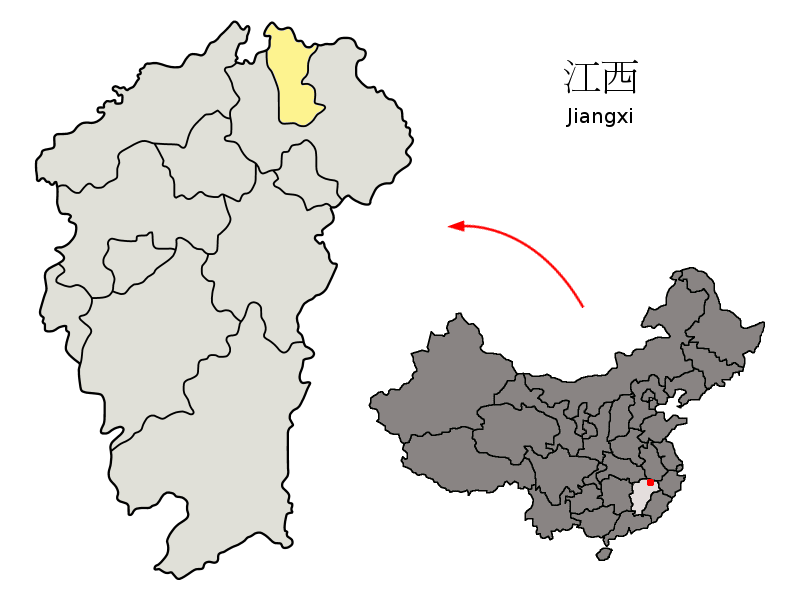 Location of Jingdezhen Prefecture (yellow) within Jiangxi Province of China Map drawn in december 2007 using various sources, mainly : Jiangxi Province administrative regions GIS data: 1:1M, County level, 1990 Jiangxi Counties map from